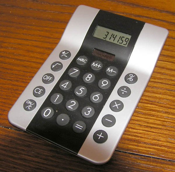 Calculator.